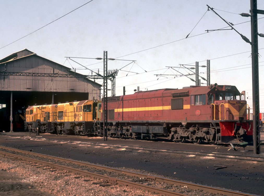 SAR Class 34-600 no. 34-660, on lease to National Railway of Zimbabwe, at Dabuka MPD with NRZ Class DE9s behind it